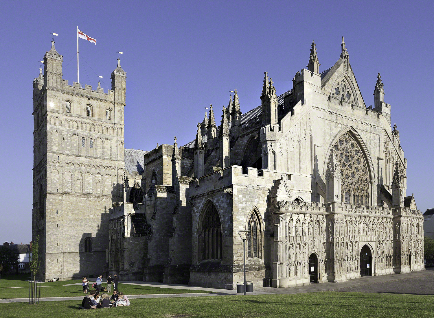 Exeter Cathedral